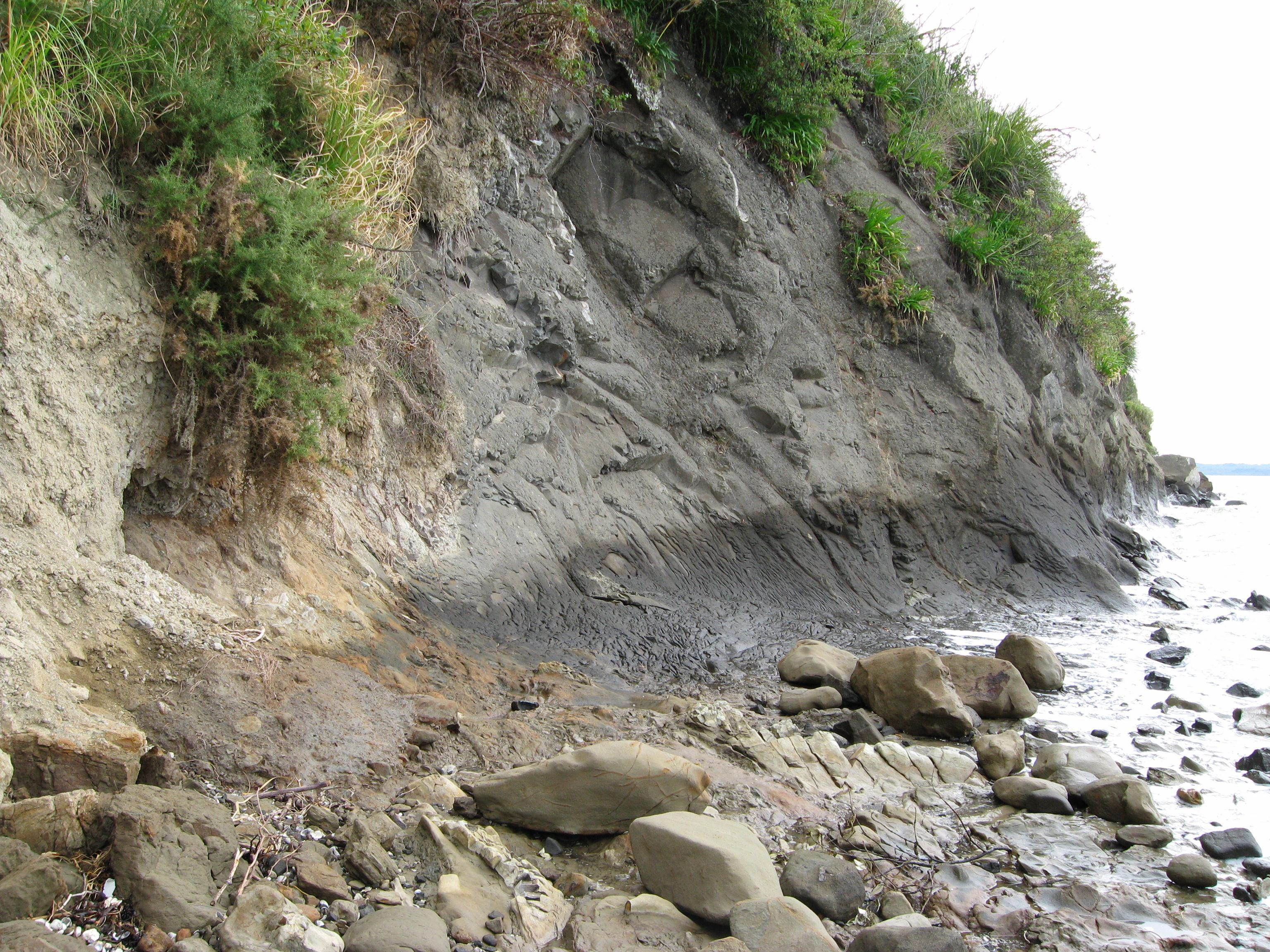 Sedimentary rock